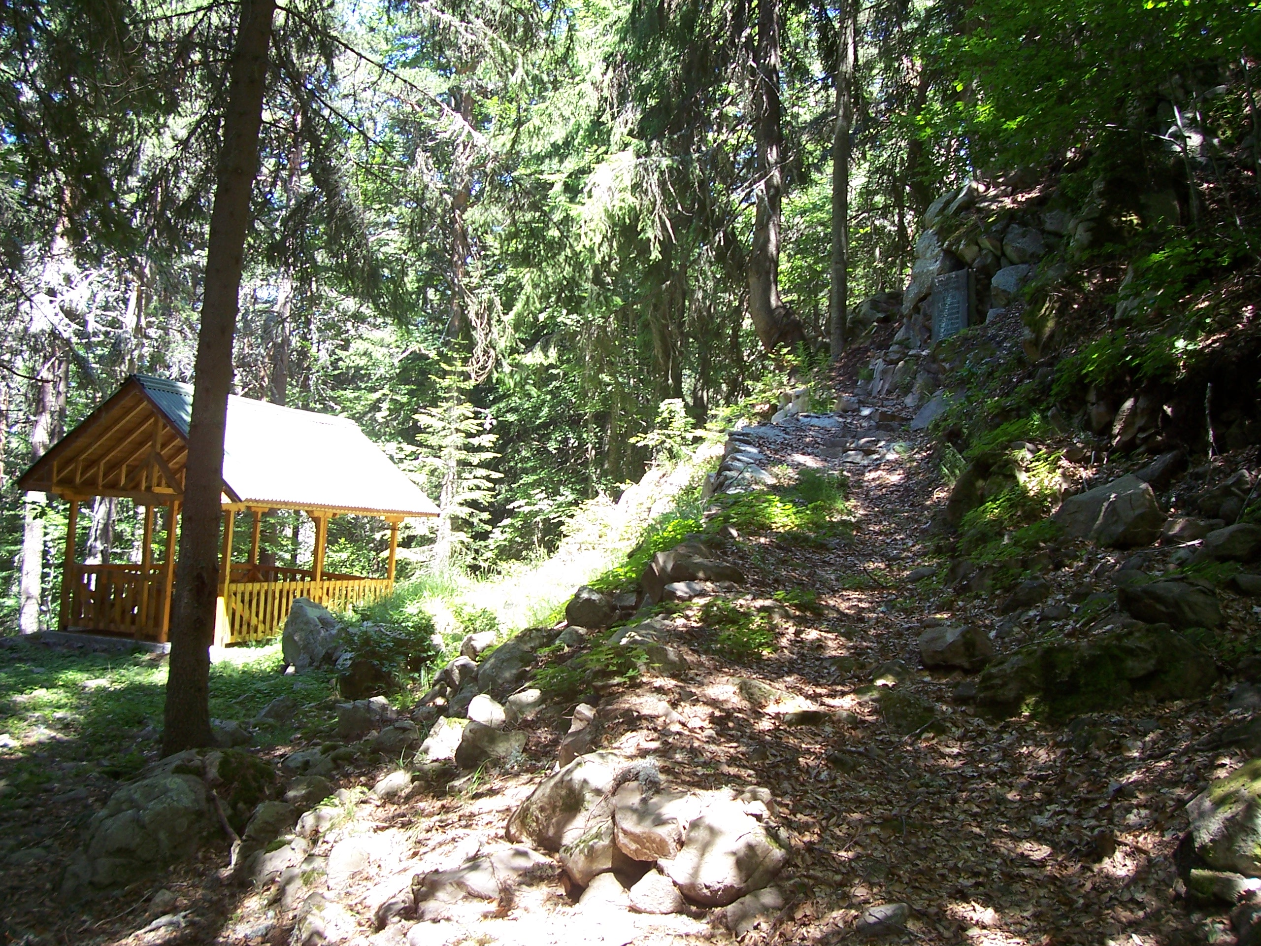 Rest place and memorial in the foot of the Unden Summit.